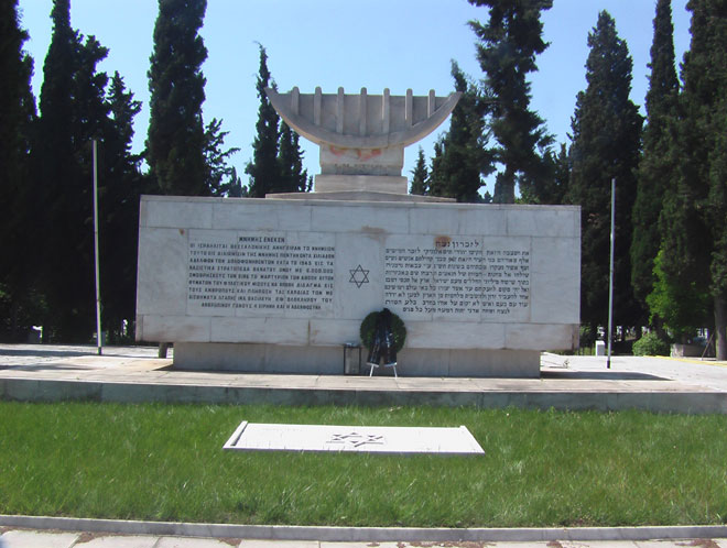 Saloniki_Holocaust_memorial_in_the_cemetery. Credit: Courtesy of Arie Darzi to memorialize the Jewish community in Greece.